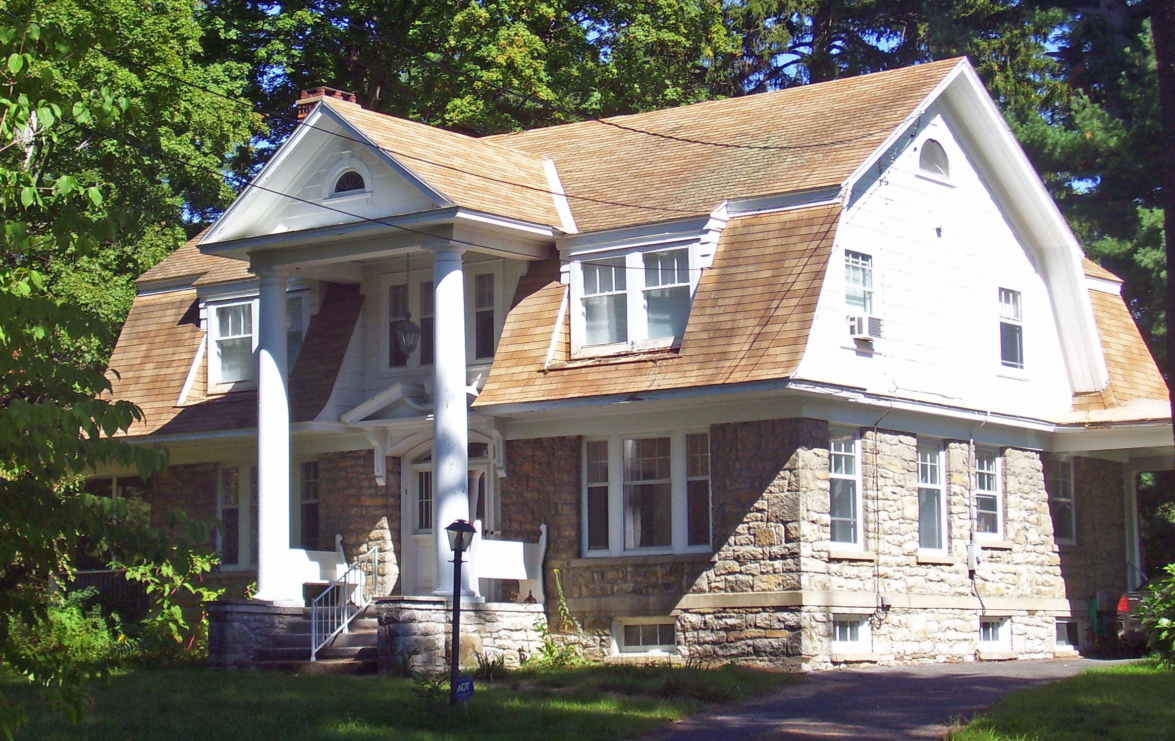 George Felpel House, Claverack, NY, USA, built with remaining stones from Claverack College